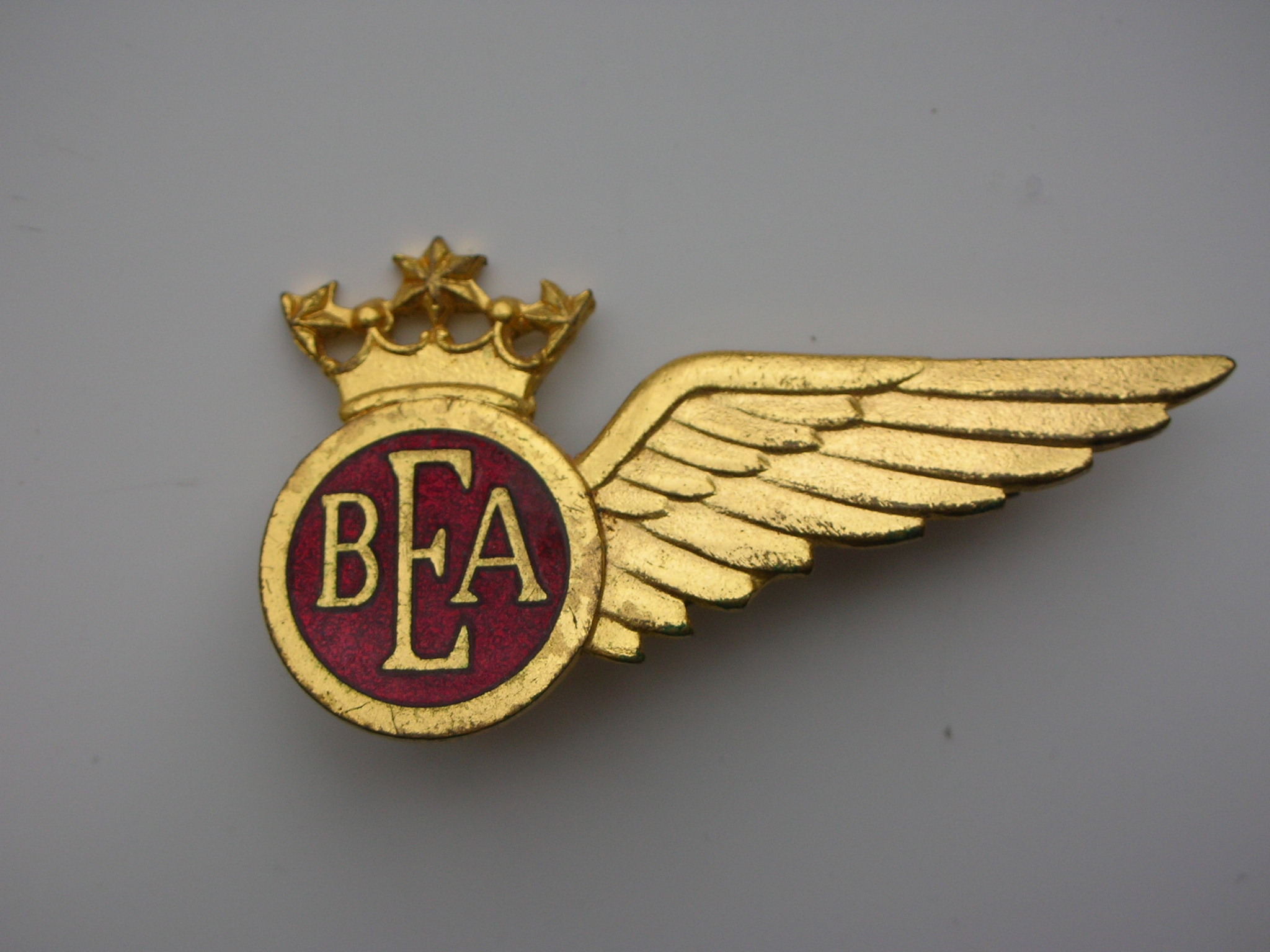 Lapel pin used by air stewards of British European Airways